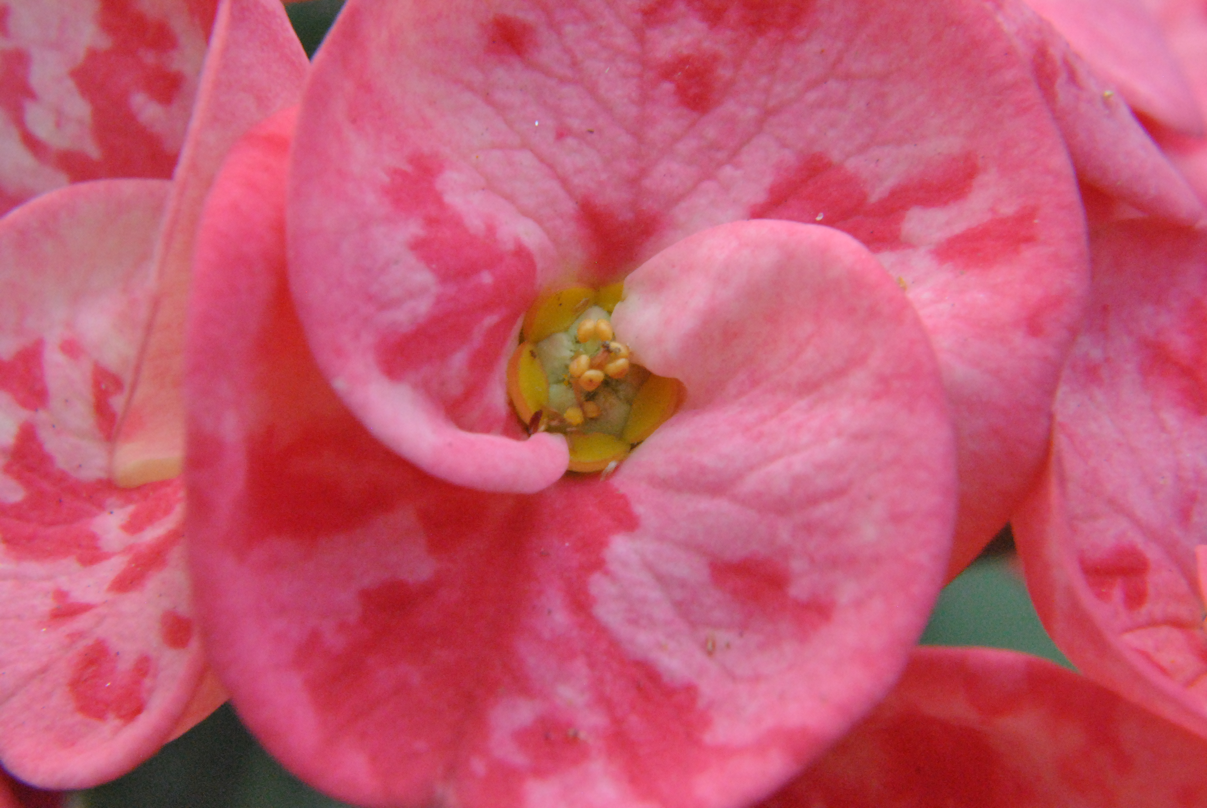 A close view of Euphorbia milii (কাঁটা মুকুট) found in Bana Bithan,Kolkata,West Bengal,India.